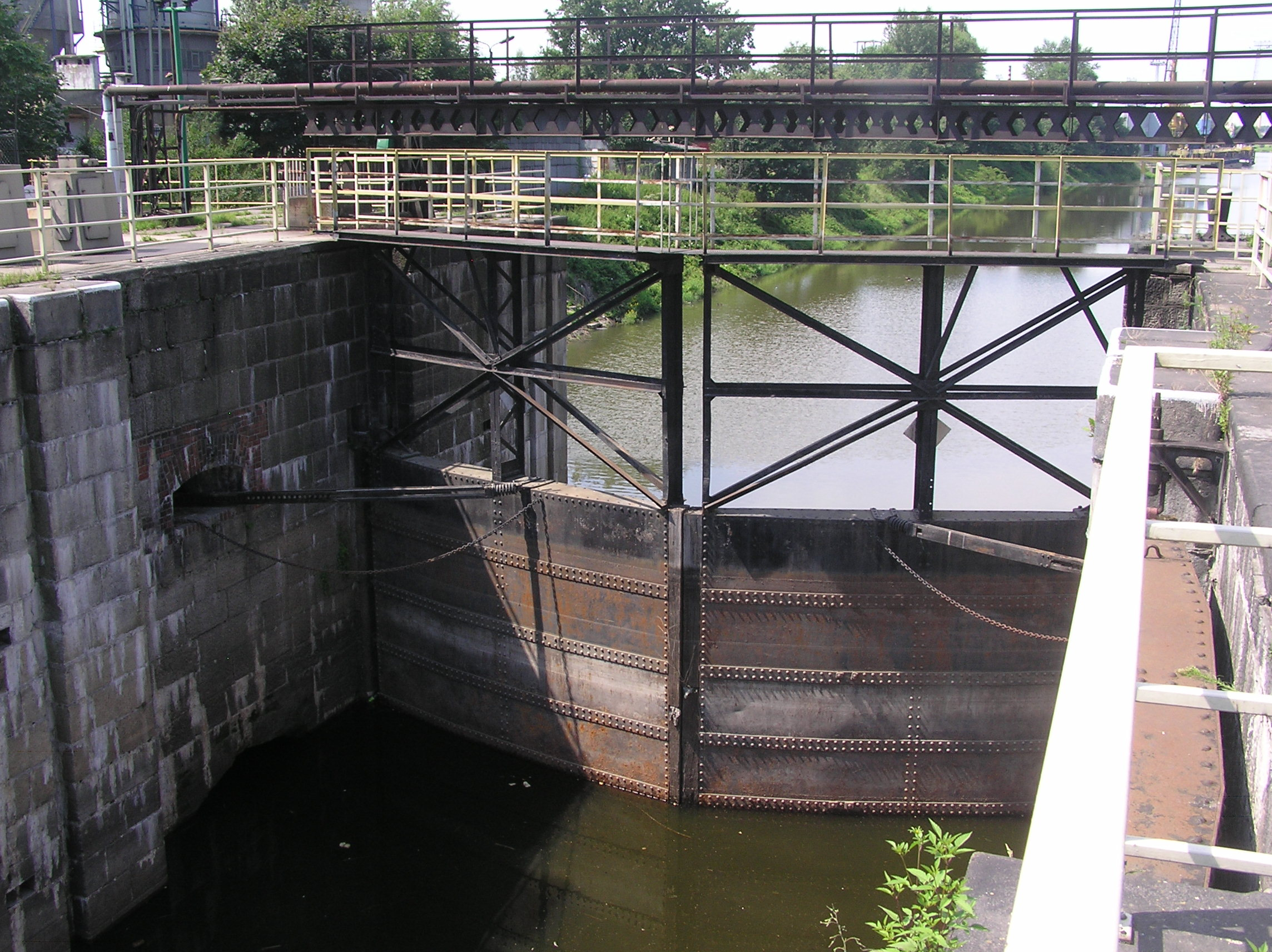 Wrocław, Oder River, trail side Oder waterway (european waterway E-30), Miejski Canal, Miejska Lock